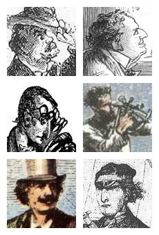 Six characters from Jules Verne's books, all featured in his play Journey Through the Impossible: T. Artelett (renamed Tartelet for the play), The School for Robinsons Doctor Ox, "Dr. Ox's Experiment" Lidenbrock, Journey to the Center of the Earth Nemo, Twenty Thousand Leagues Under the Sea Ardan, From the Earth to the Moon Hatteras (mentioned only), The Adventures of Captain Hatteras